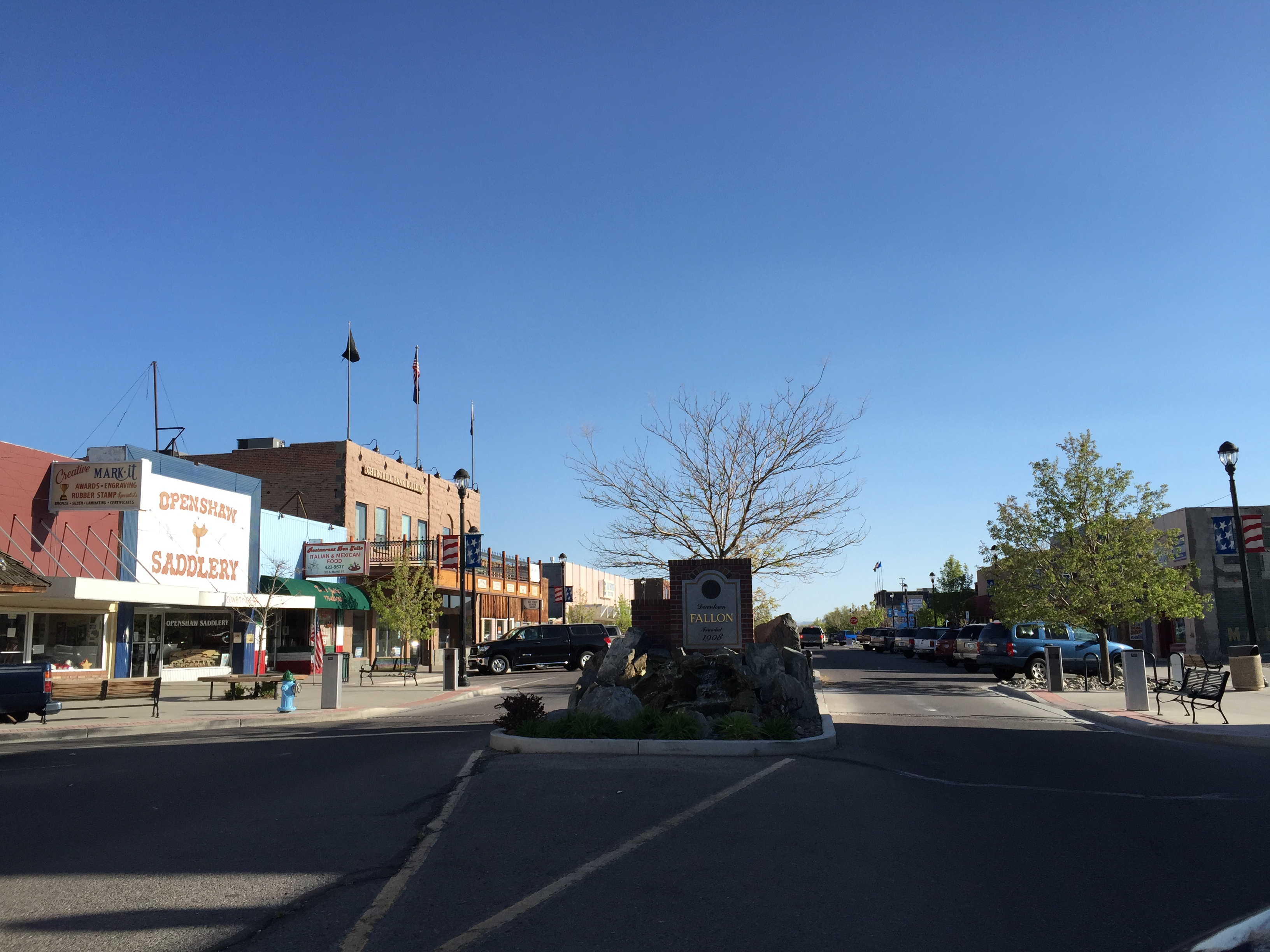 View south along Maine Street in downtown Fallon, NevadaMaine Street Historic District